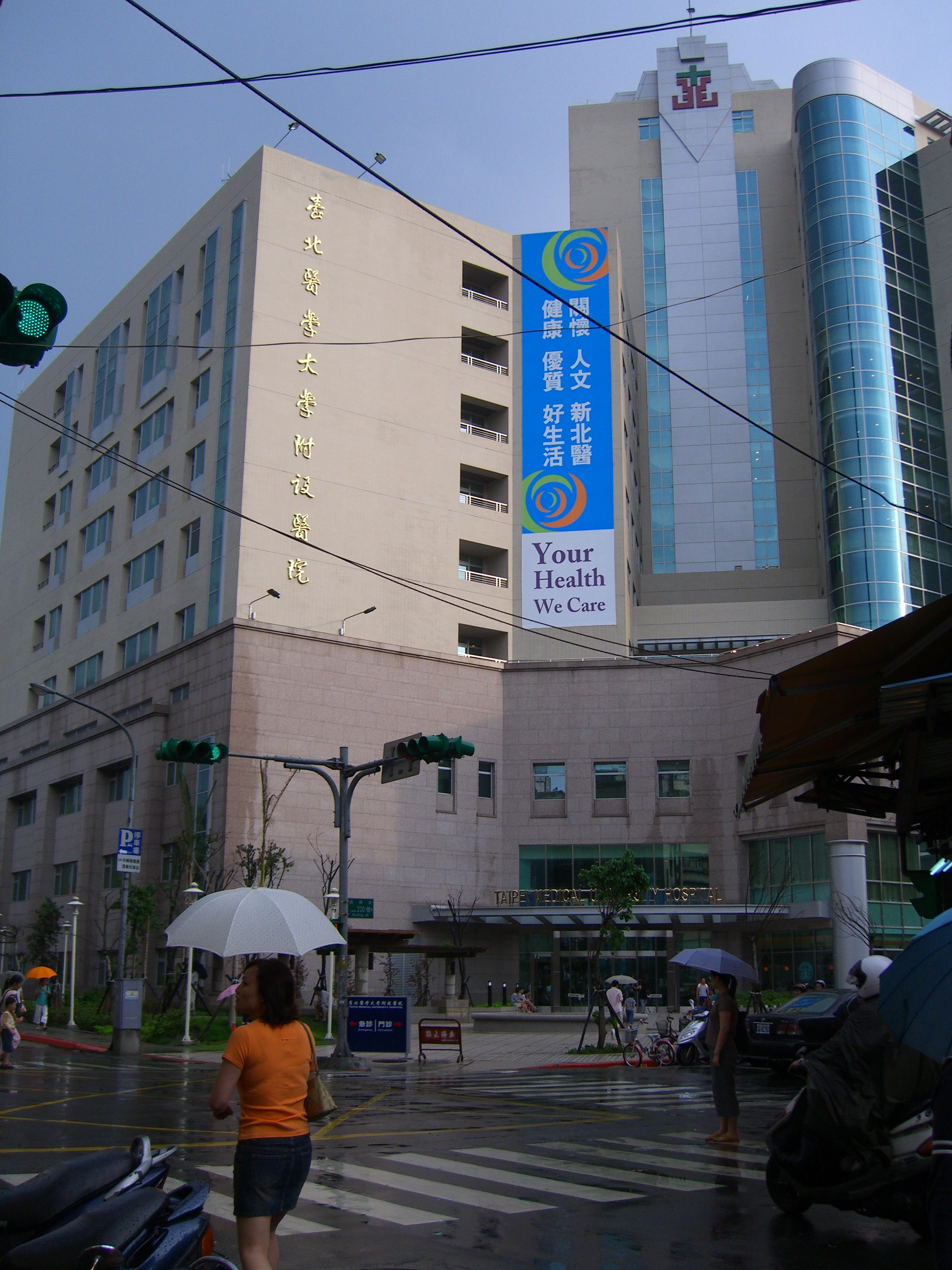 The building of Taipei Medical University Hospital Building in Taipei City, Taiwan.中文（台灣）: 臺灣臺北醫學大學附設醫院的外觀，地址：臺北市信義區吳興街252號。